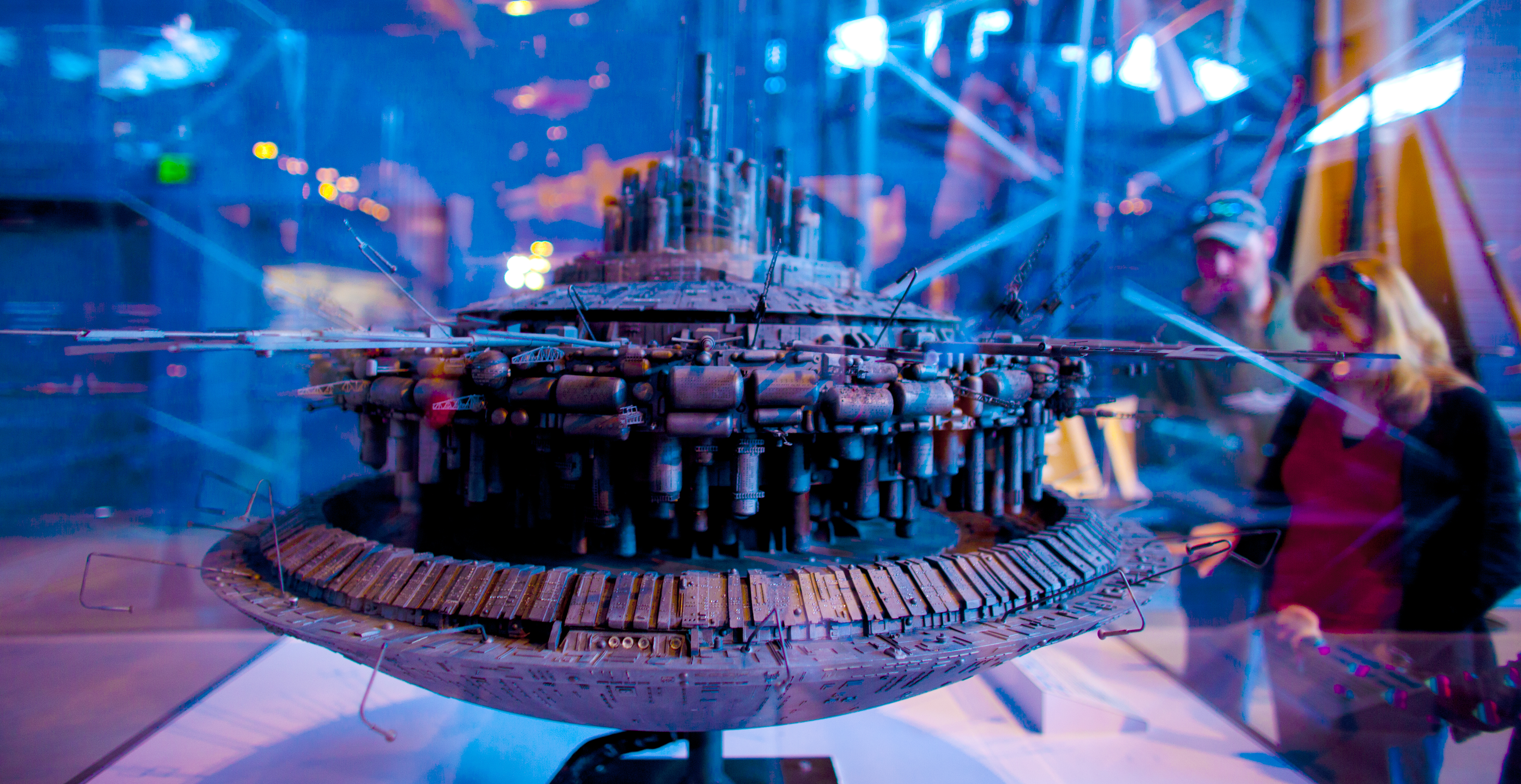 Model in wood, plastic and metal of the Mother Ship spacecraft used in the filming of the movie Close Encounters of the Third Kind (1977). Steven F. Udvar-Hazy Center, Smithsonian's National Air and Space Museum, Washington, D.C. source “The ship was conceived by Steven Spielberg, the film's director and screenwriter. It was made by a team headed by Gregory Jein, using model train parts and other kits. When filmed with special photographic and lighting effects, the model appears to be a huge, hovering craft. Rotating, colored lights underneath the ship added to its effects. Looking closely at the model, one can find tiny hidden smaller models which are not seen when the Mother Ship appears in the film. These models were added by the model makers as internal "jokes". They include a Volkswagen bus, a submarine, the R2-D2 android, a U.S. mailbox, an aircraft, and a small cemetery plot.”